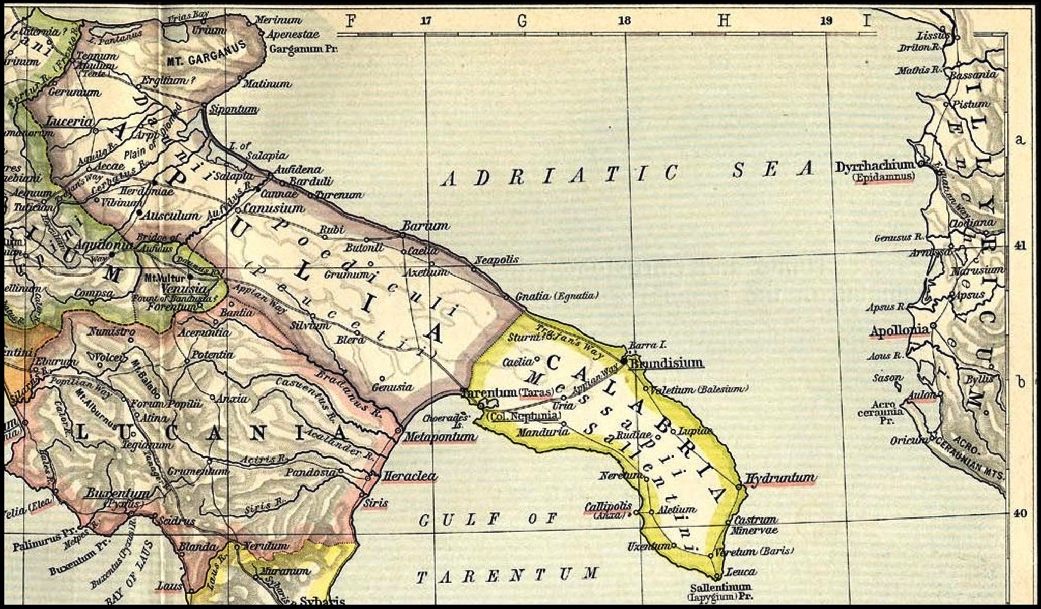 Map of Apulia, Calabria and Lucania cropped from old public domain map of Italy, from the Perry-Castañeda Library Map Collection, Historical Atlas by William R. Shepherd north, south